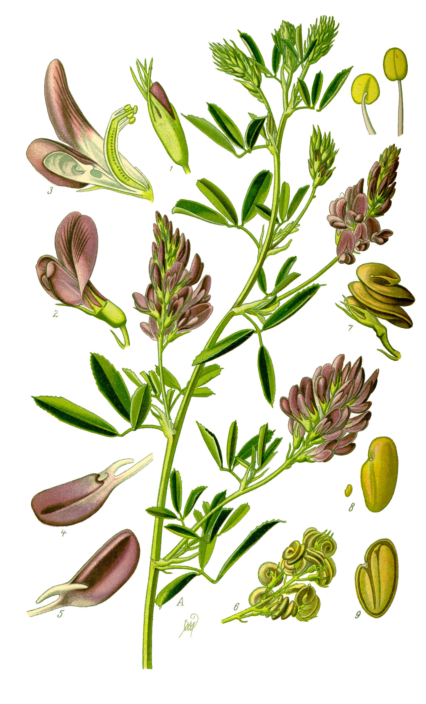 Name Medicago sativa Family Fabaceae Clean version of Image:Illustration Medicago sativa0.jpg